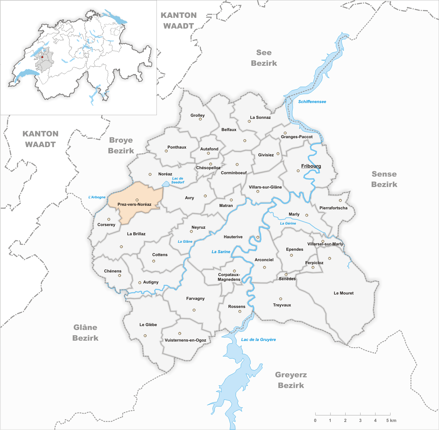 Municipality Prez-vers-Noréaz